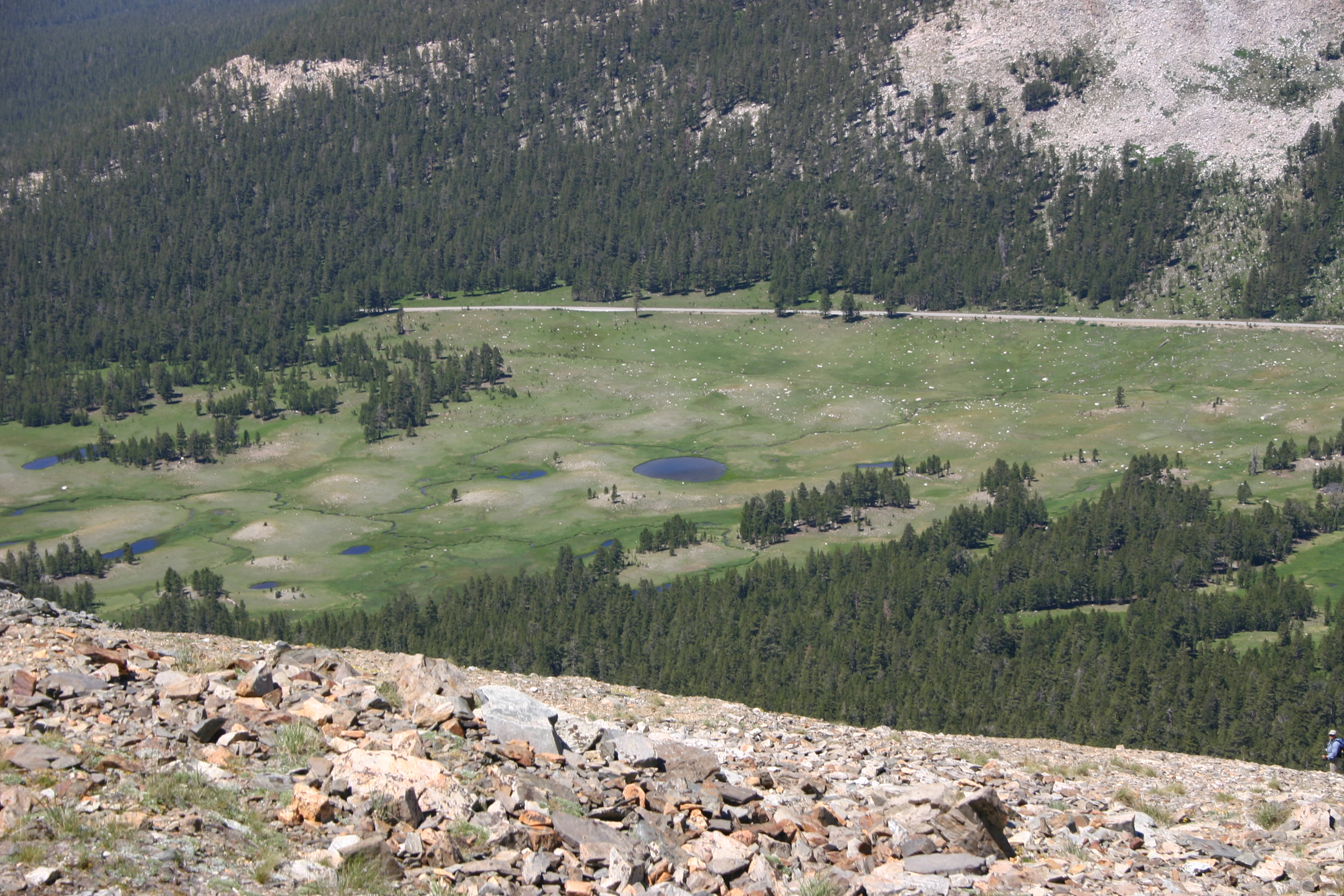 View of Dana Meadows from ridge on Mount Dana.